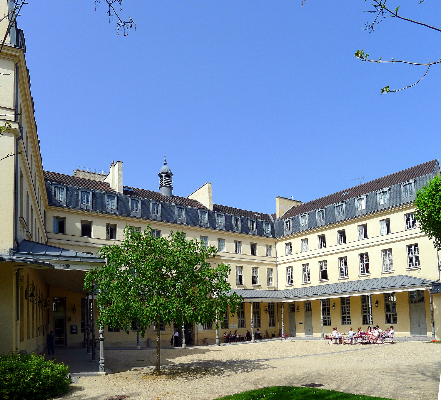 Irlandais street - Paris